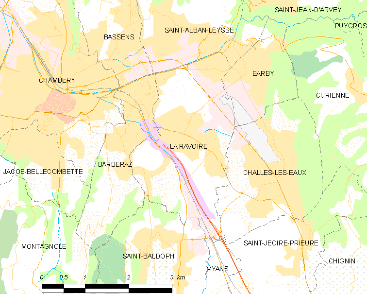 Map of French municipality